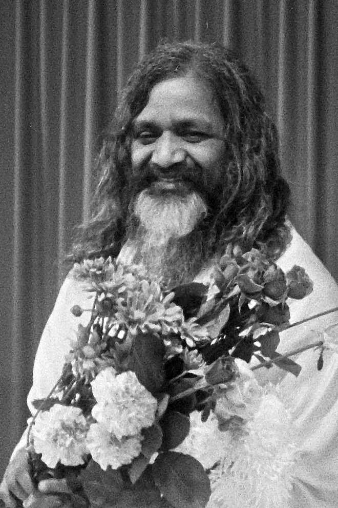 Maharishi Mahesh Yogi in 1967 in The Netherlands at Concertgebouw (Amsterdam) - (Cropped picture)